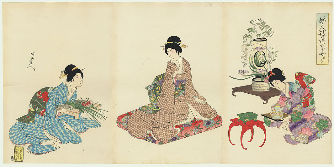 A group of women arranging flowers